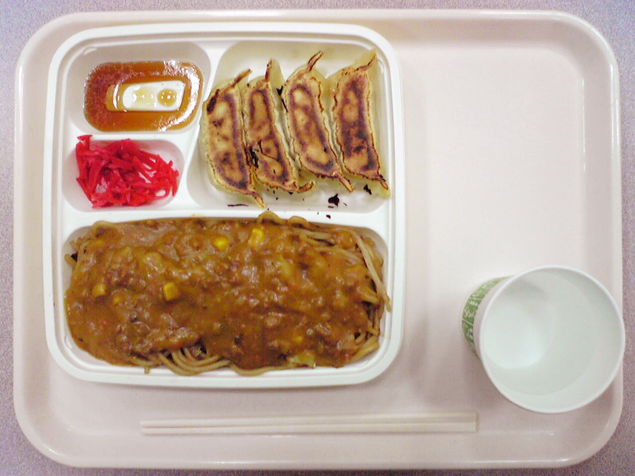 This picture shows a typical set menu including the meal which is called "ITARIAN(Italian)" . It is served at the fast food chain "Friend". The set menu includes "ITARIAN" and Chinese-style dumplings. "ITARIAN" is popular meal in the particular area in Niigata prefecture, Japan. It is a fried noodle with sauce such as meat sauce. In this area, there are some chain stores that specially serve "ITARIAN". There are mainly two fast food chain which serve "ITARIAN" specially. One is "Mikazuki" and another is "Friend".